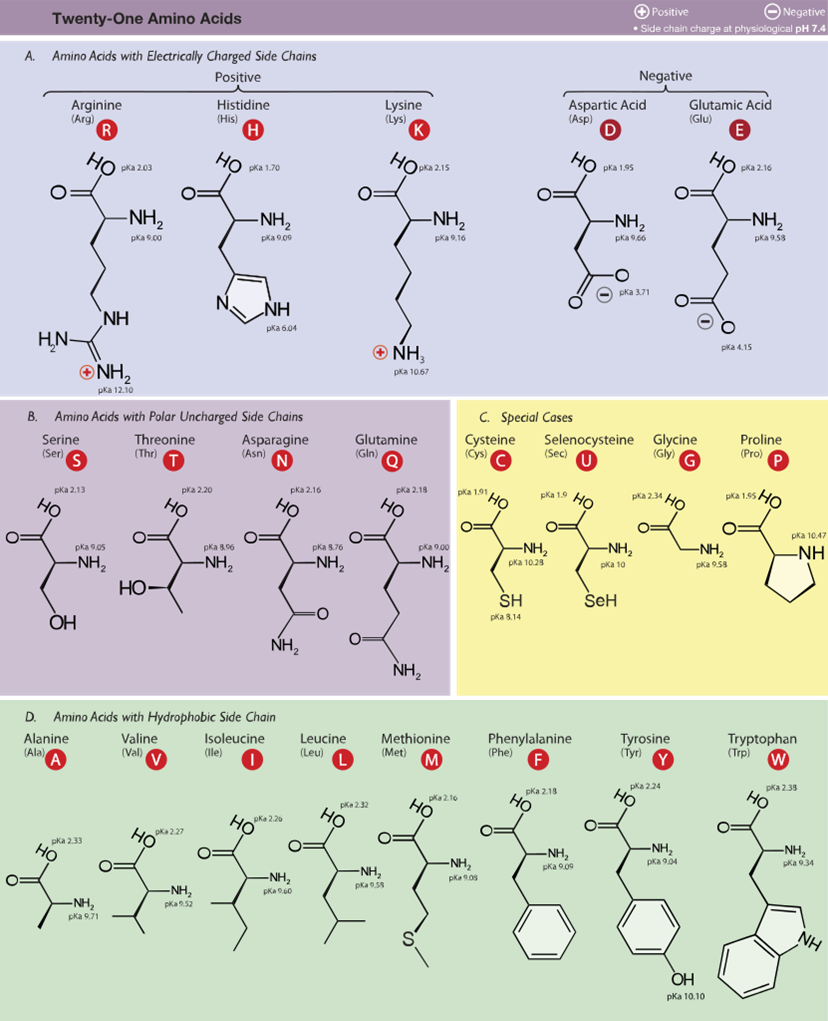 Table of 21 amino acids